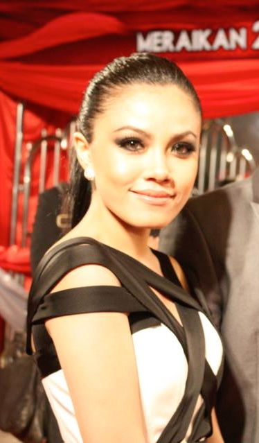 Profile picture of Tiz Zaqyah